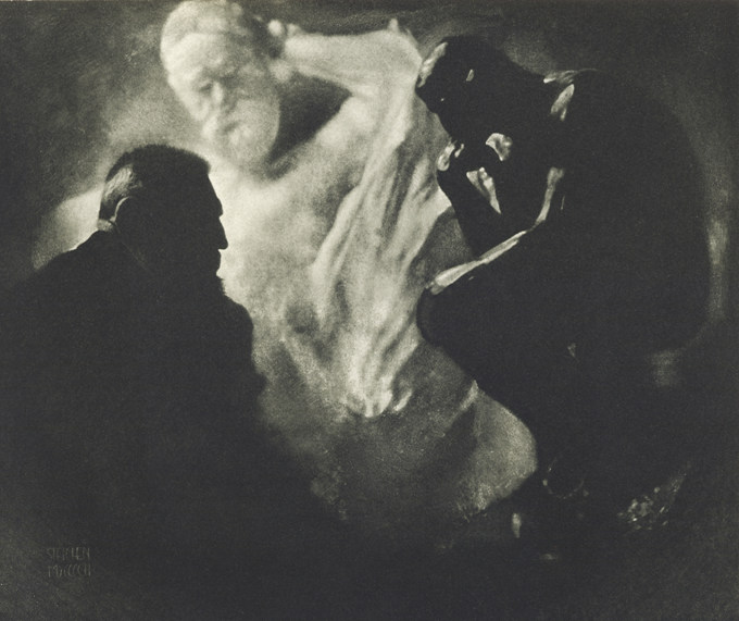 Auguste Rodin seen in a parallel pose with Le Penseur (The Thinker)